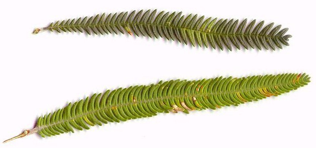 Two leaves of Banksia brownii. Above: a leaf of the shrubby "mountain form". Below: a leaf of the "Millbrook Road form", which usually grows as a tree.